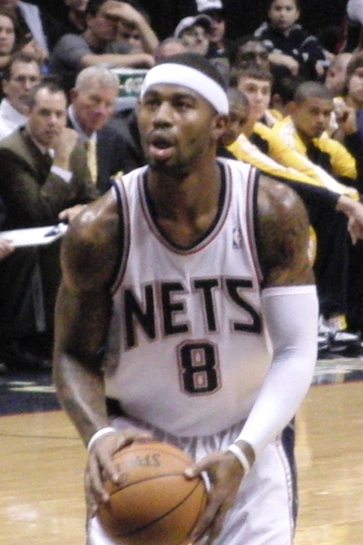 Picture of Terrence Williams of the New Jersey Nets at the foul line